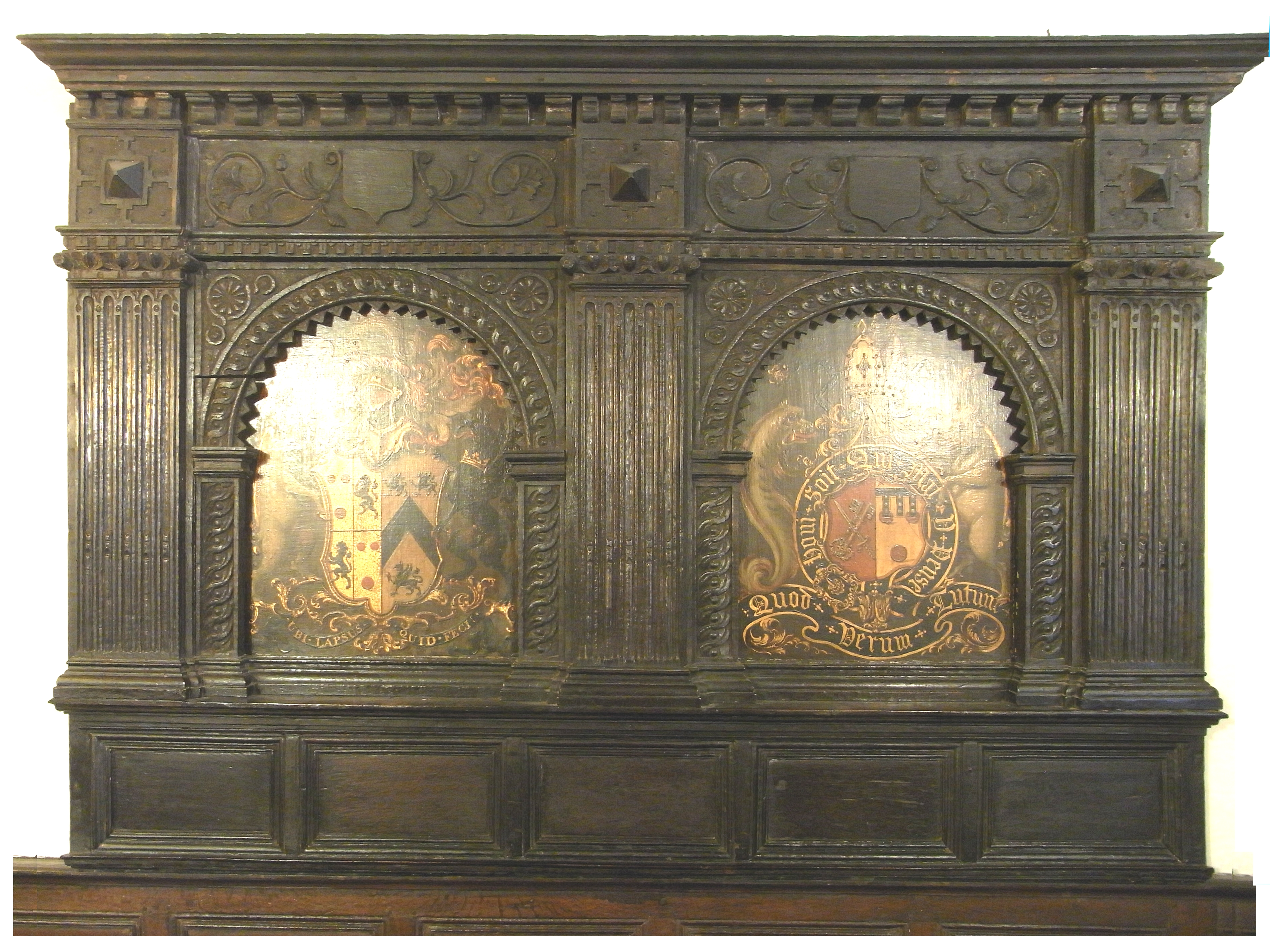 Overmantle circa 1750, in former town house of Courtenays of Powderham, now home of the Devon and Exeter Institution, 7 Cathedral Close, Exeter. The left hand painted panel shows the arms of William Courtenay, 1st Viscount Courtenay (1711-1762) impaling the arms of Finch, the family of his wife. The sinister supporter is one of the Finch heraldic griffons, the dexter one is the Courtenay boar. The Courtenay motto is shown underneath: Ubi lapsus quid feci. The panel on the right shows the arms of Bishop Peter Courtenay (1432–1492), Bishop of Exeter and Winchester. His arms (the courtenay arms with each point of the label charged with three plates for difference) are impaled by the arms of the See of Winchester. The whole is circumscribed by the Garter. The supporters are: dexter, the Courtenay dolphin, sinister the Courtenay boar. The motto beneath is: Quod verum lutum.